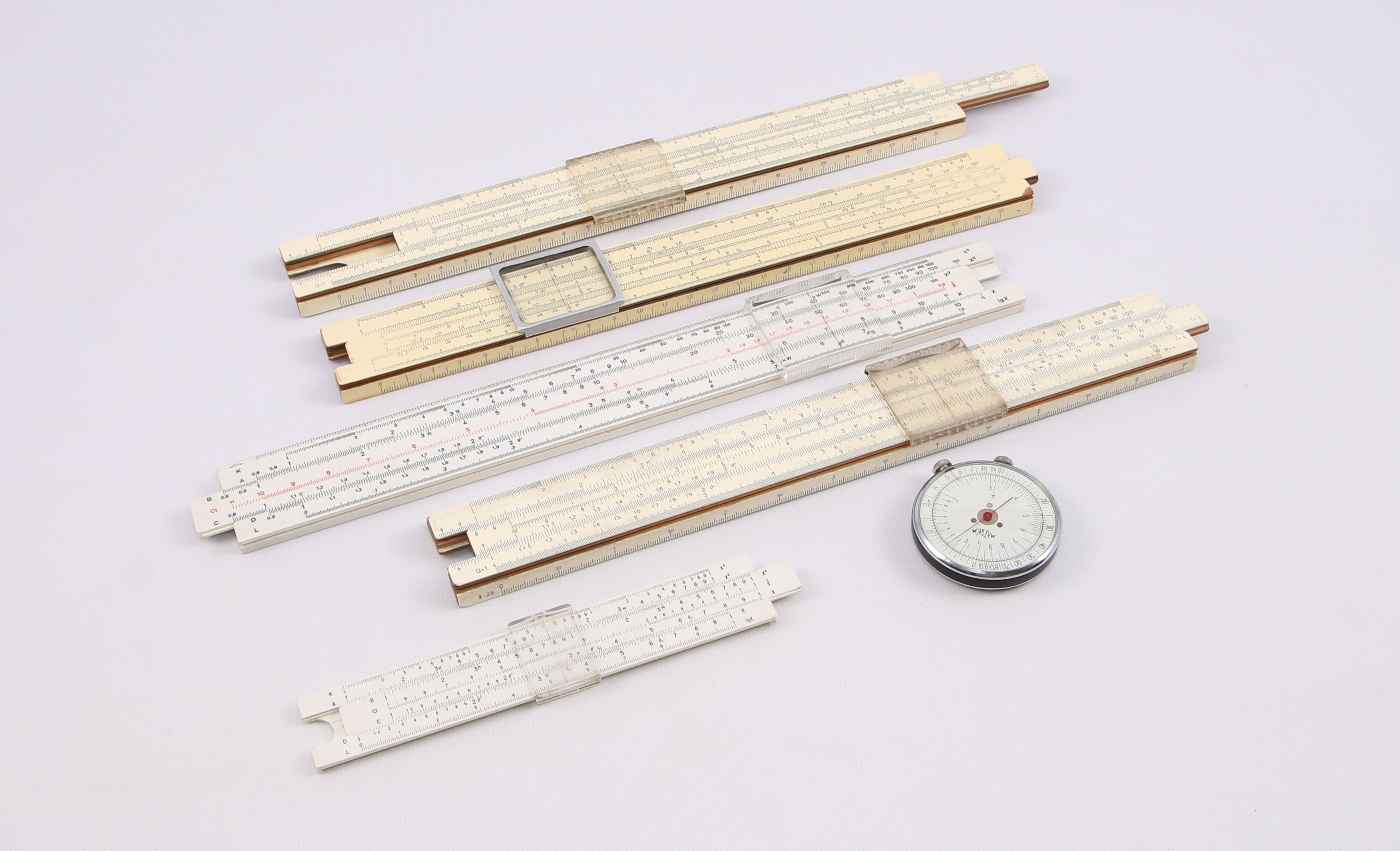 Soviet era slide rulers. First 1957, third 1977. Round - 1969